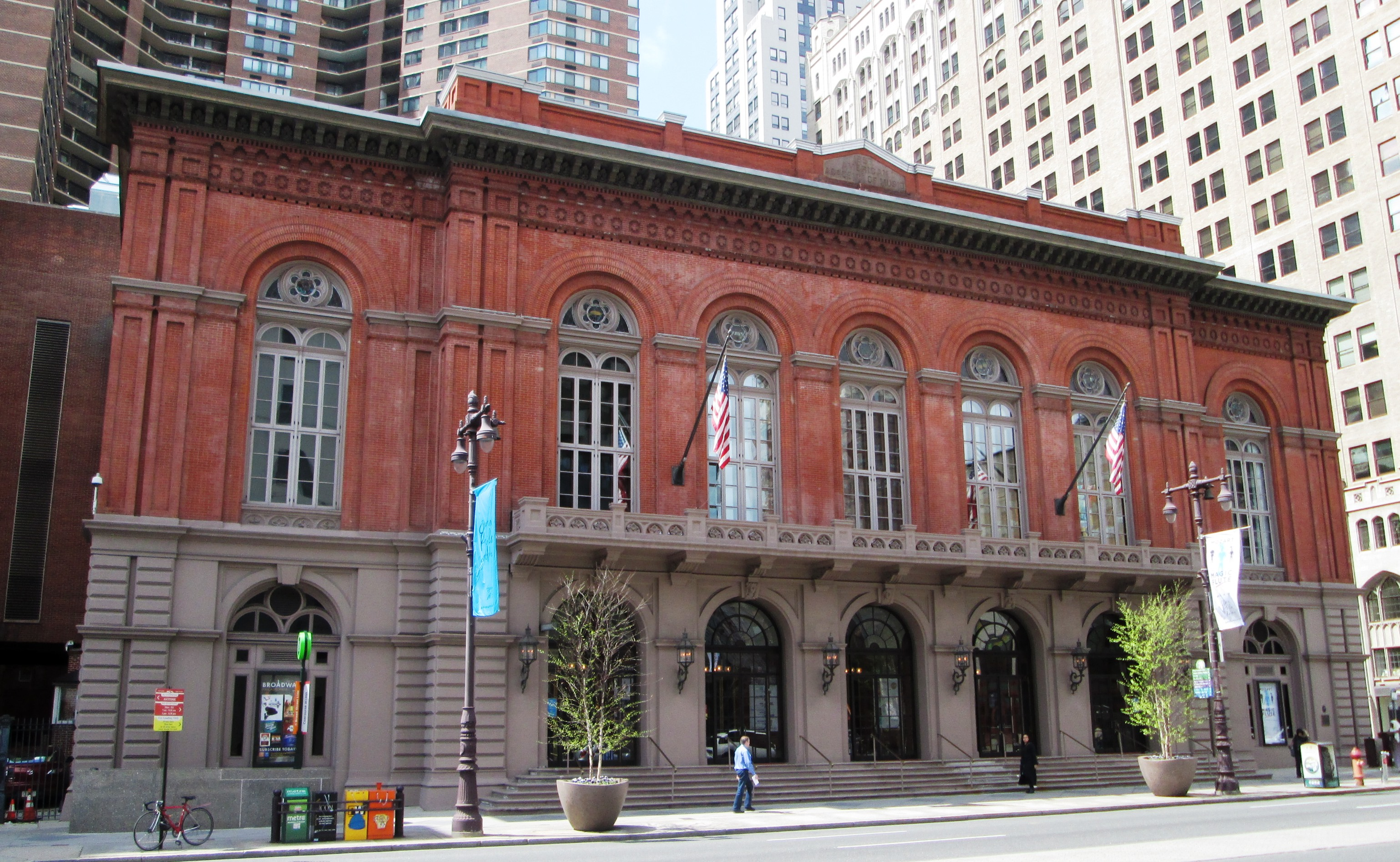 The Academy of Music at 240 S. Broad Street between Locust and Manning Streets in the Avenue of the Arts neighborhood of Center City, Philadelphia is a concert hall and opera house which was built in 1857 and is the oldest auditorium in the United States that is still used for its original purpose. A competition for the Academy's design was won by Napoleon LeBrun and Gustavus Runge. The groundbreaking ceremony was held on June 18, 1855. Known as the "Grand Old Lady of Broad Street," the venue is the home of the Pennsylvania Ballet and the Opera Company of Philadelphia. It was home to the Philadelphia Orchestra as well, from its inception in 1900 until 2001 when the orchestra moved to the new Kimmel Center for the Performing Arts. The Philadelphia Orchestra still retains ownership of the Academy. The hall was designated a National Historic Landmark in 1962.